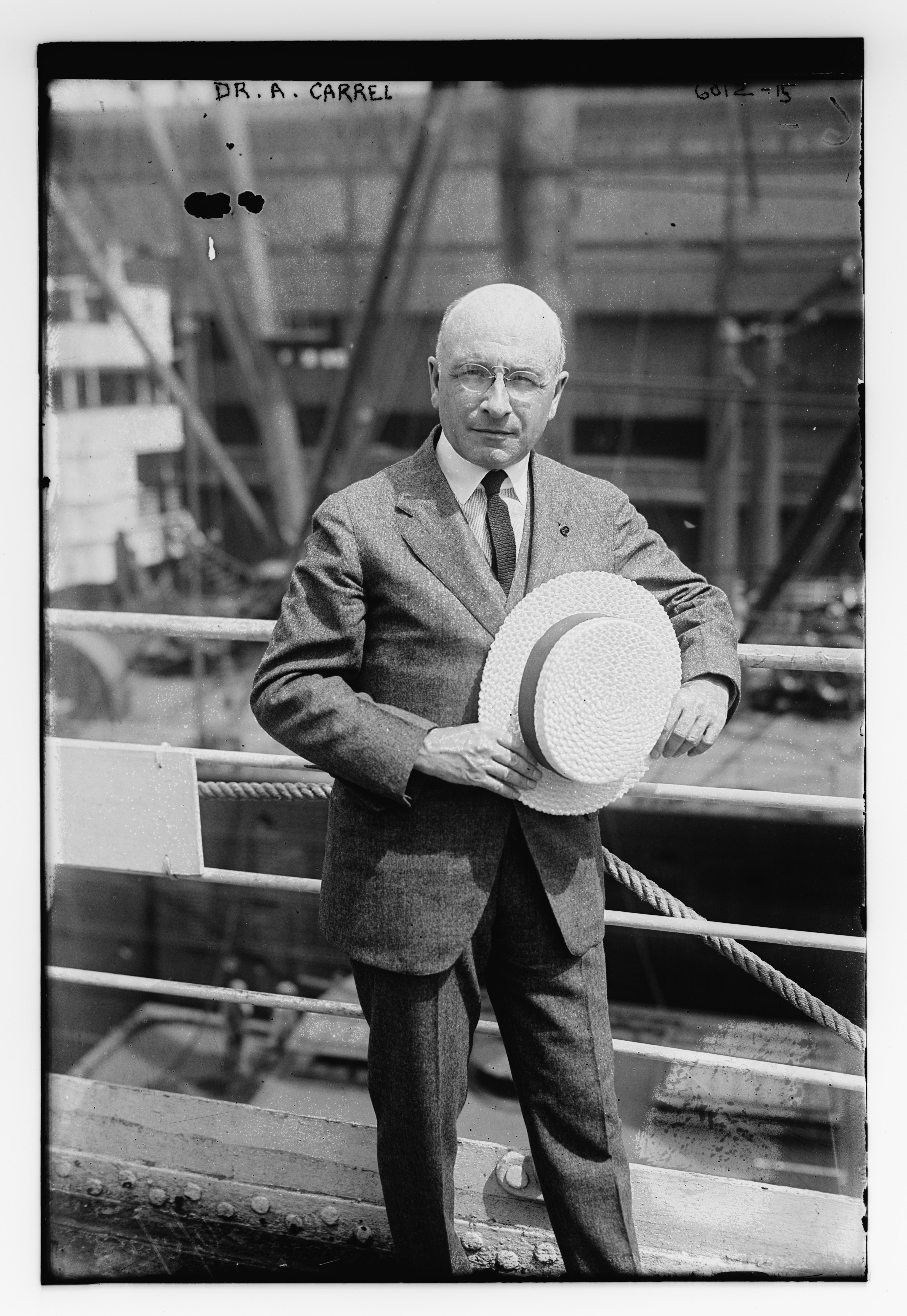 Title: Dr. A. Carrel Abstract/medium: 1 negative : glass ; 5 x 7 in. or smaller.